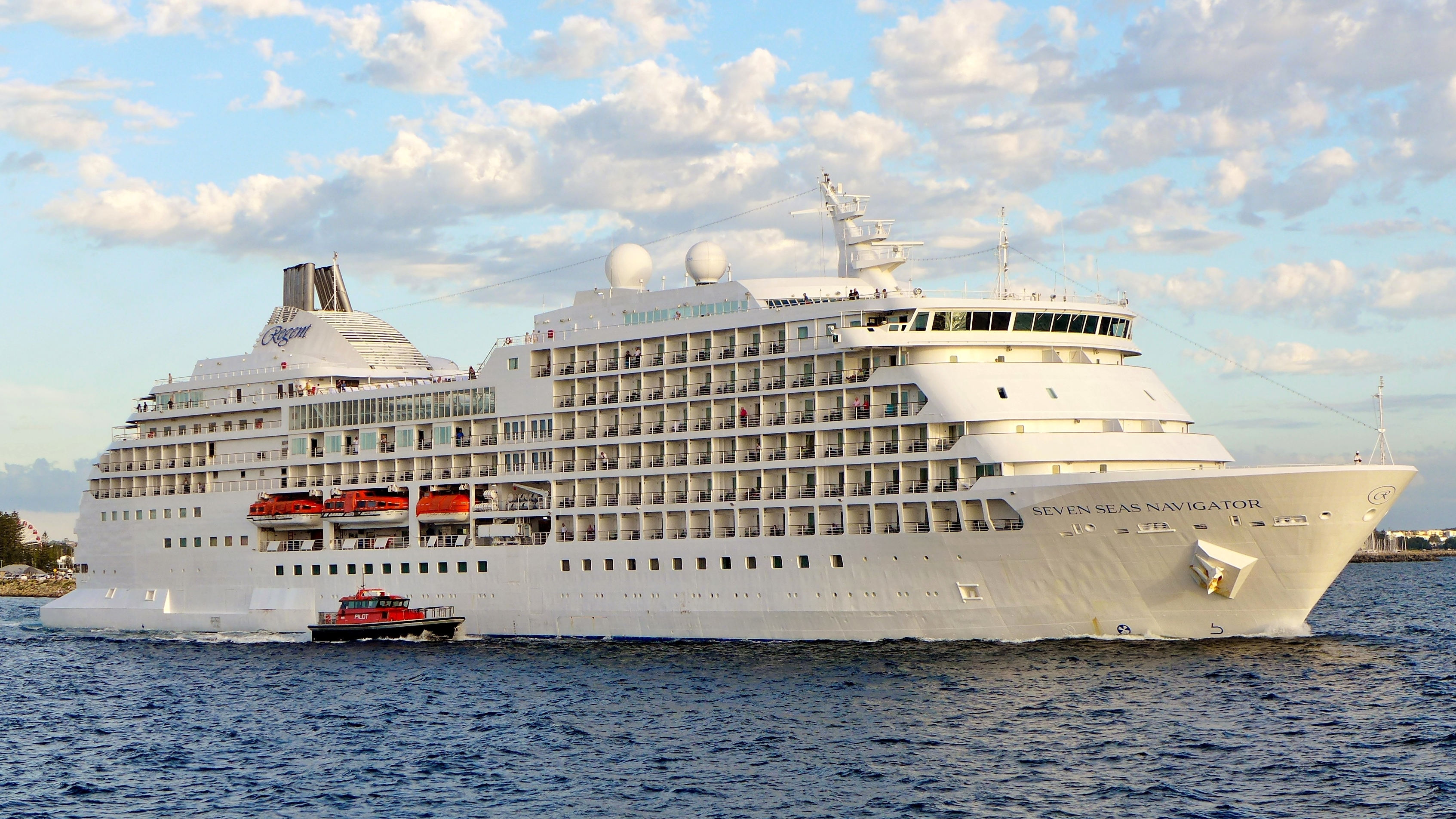 Cruise ship Seven Seas Navigator departing from the inner harbour of the Port of Fremantle, Western Australia, on the Empress of the East cruise from Fremantle to Singapore via Indonesia, Borneo and Brunei